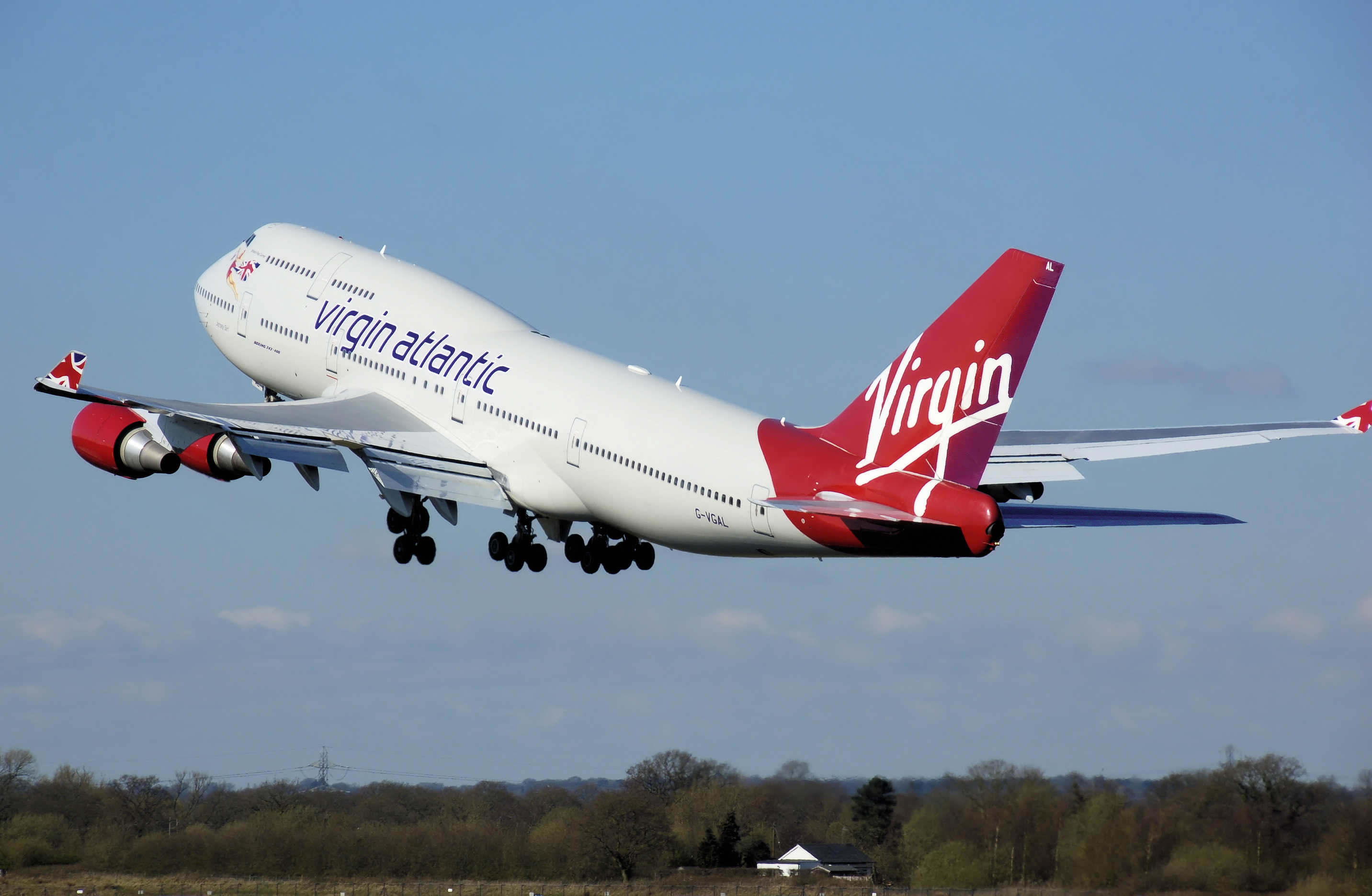 Virgin Atlantic Airways Boeing 747-400 (G-VGAL) takes off from Manchester Airport, England.